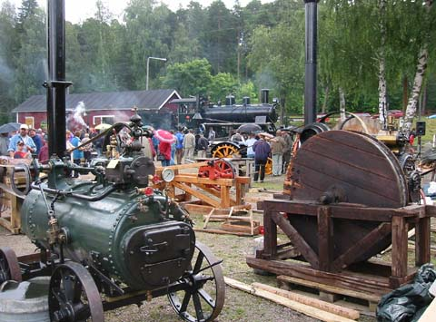 A Live Steam Festival in Porvoo, Finland. Photo 2003 by J-E Nyström, User:Janke